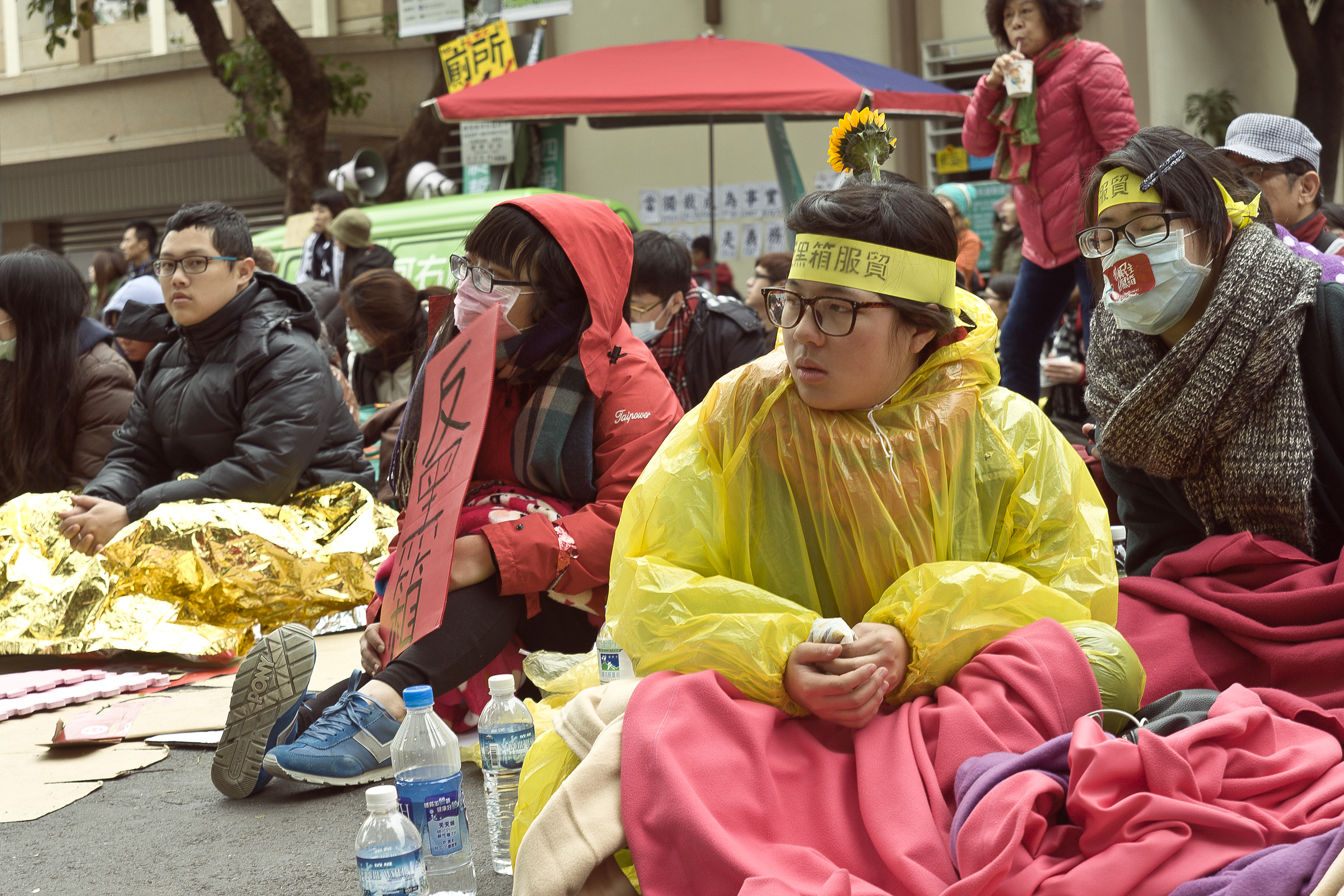 College students congregated outside the ROC Legislative Yuan (立法院) hold up signs of protest against the unilateral passage of the Cross-Straits Services Trade Agreement.